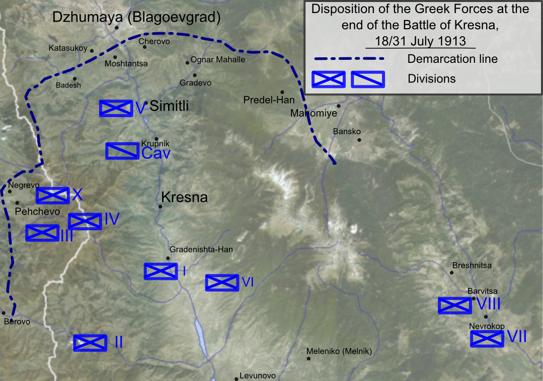 Disposition of the Greek Forces following the armistice that ended Greek-Bulgarian hostilities during the 2nd Balkan War (1913).